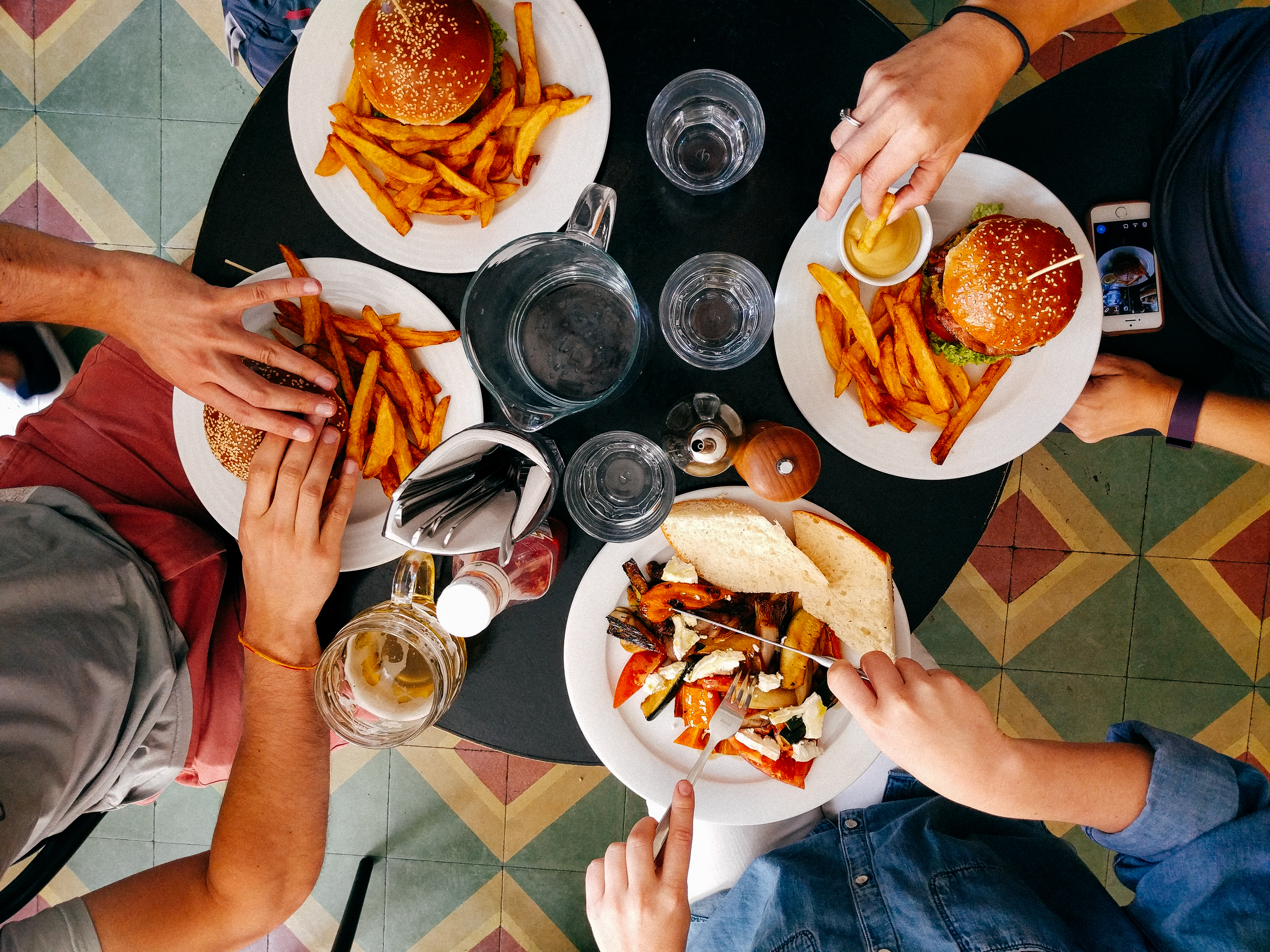 Vršovice, Prague, Czech Republic